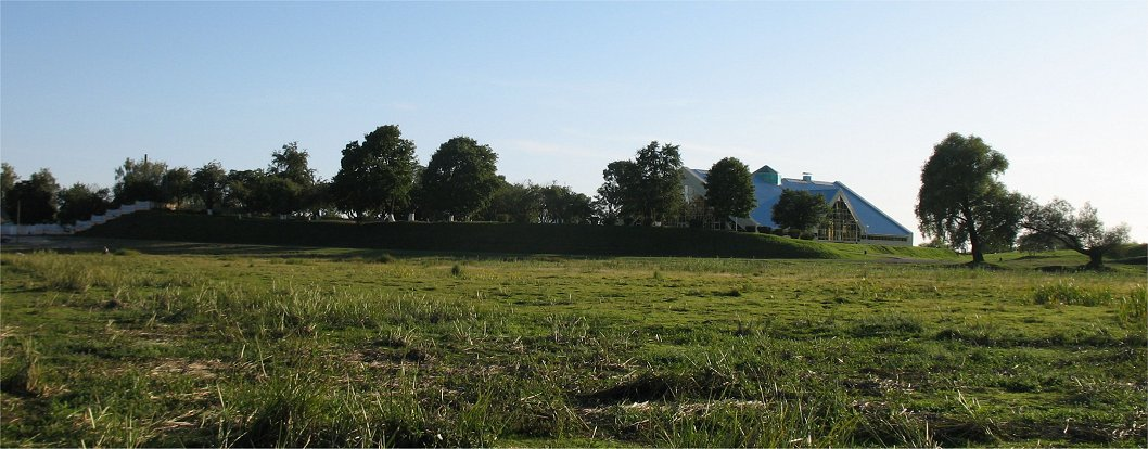 View from the coast of river Prypyat, towards the low castle hill of historical town of Turov, Gomel region, Belarus. Most of the old castle and other buildings on the hill are now disappeared, although some bases of them can be seen in a separate museum/exhibition house seen in the picture.